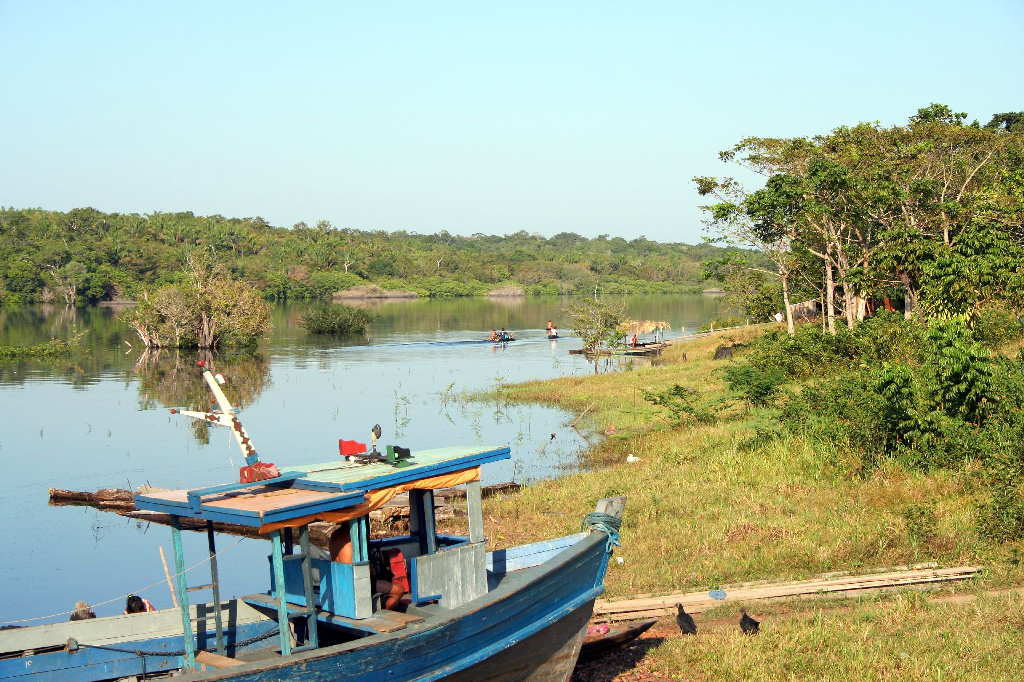 A boat in Amazonas, Brazil